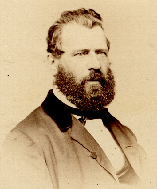 Joseph-Édouard Turcotte